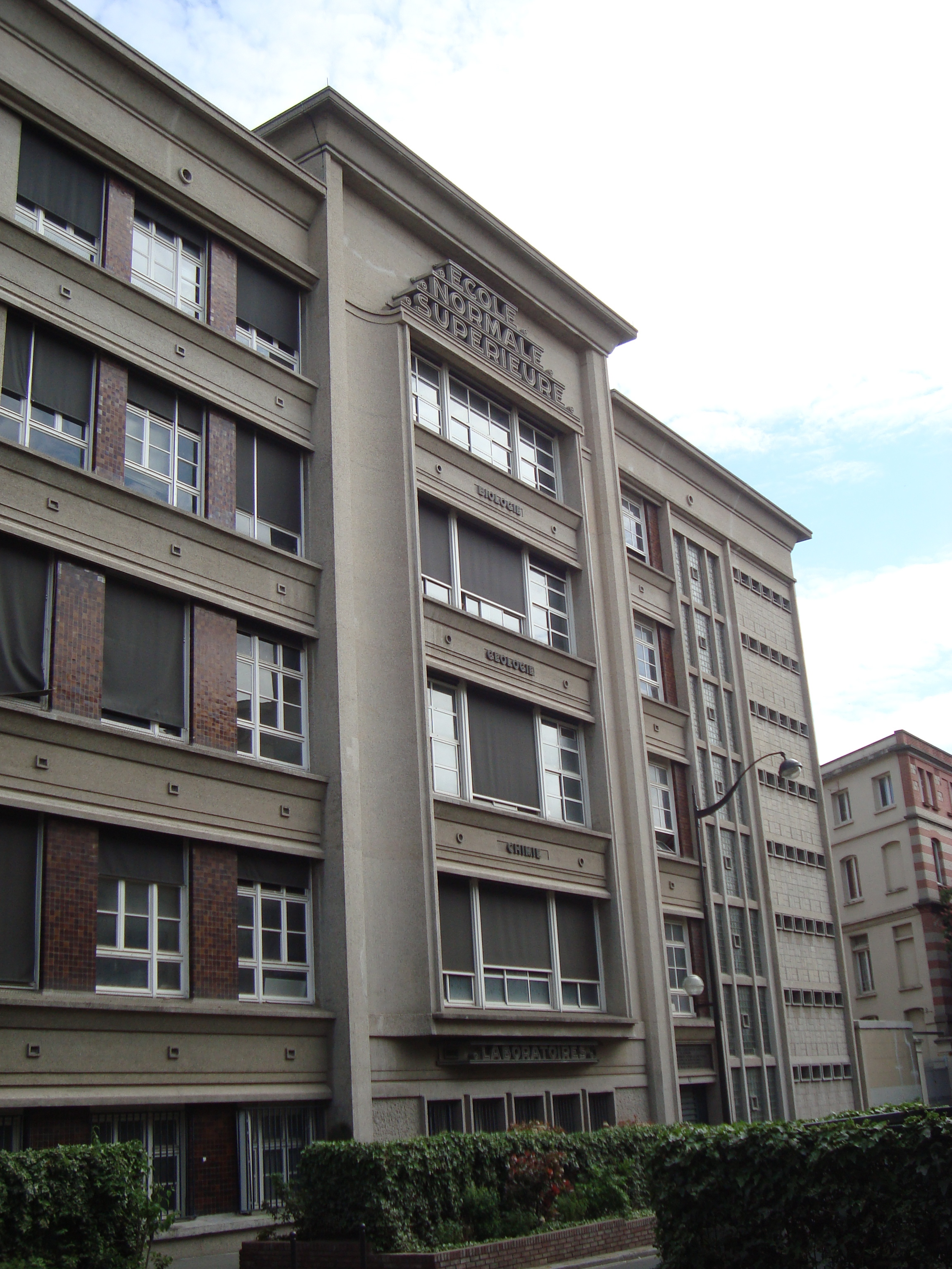 Laboratories of the Ecole normale supérieure (Paris) located at rue Erasme in Paris